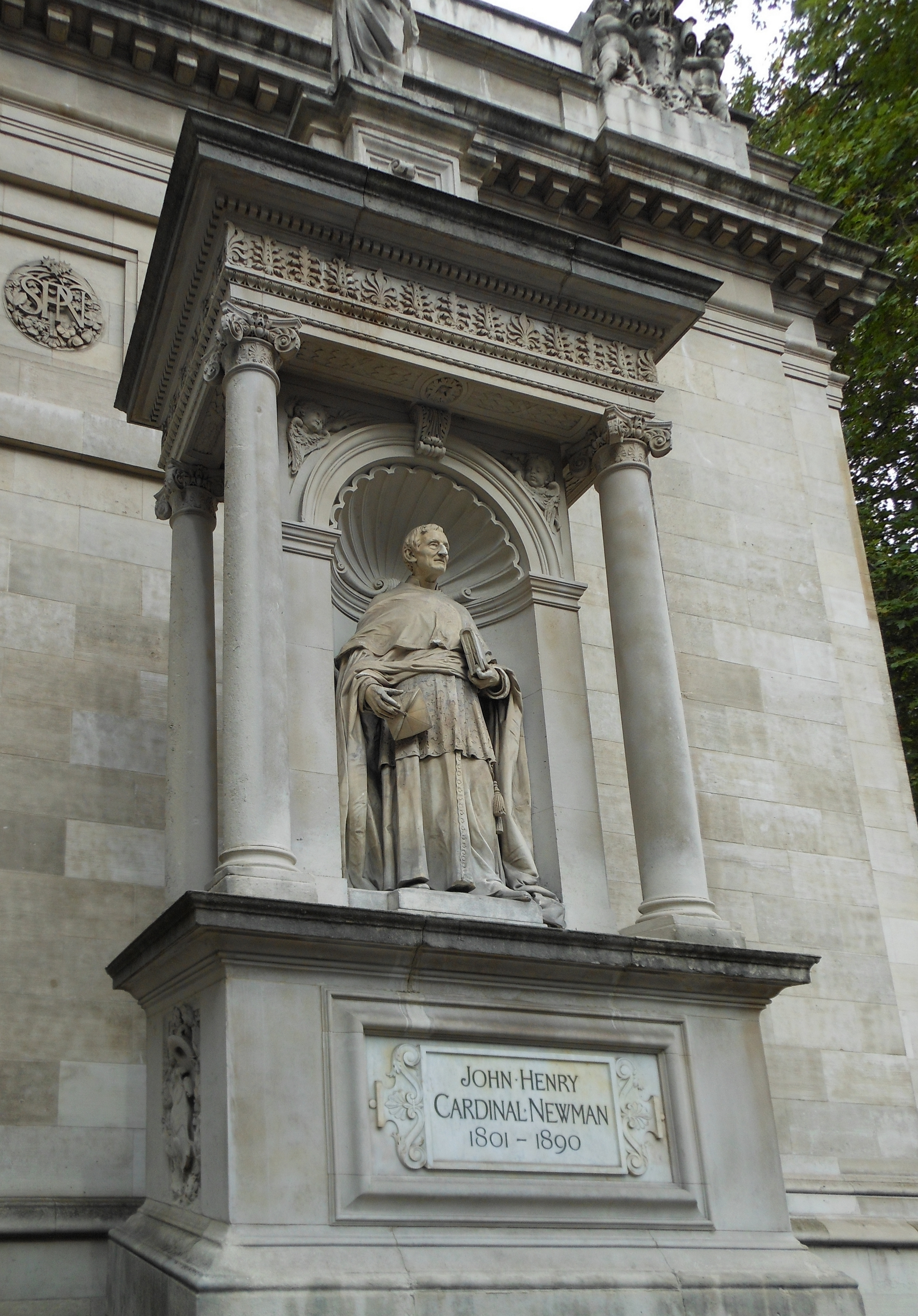 John Henry Newman Monument at Brompton Oratory, London